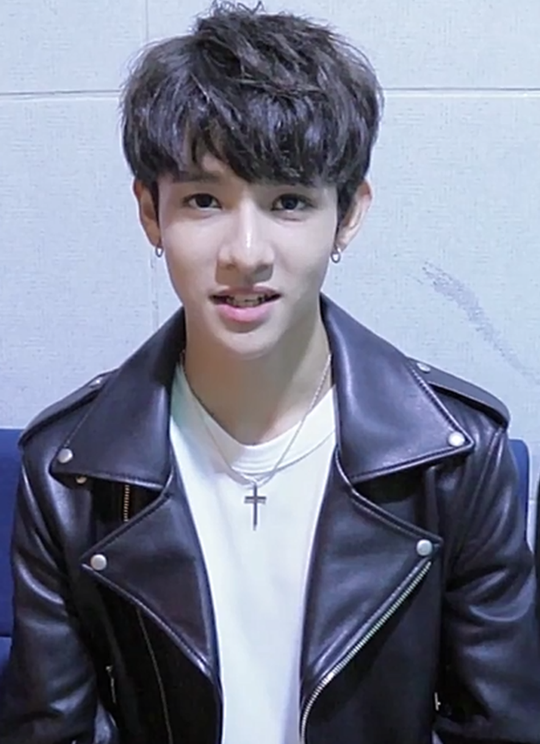 Samuel Kim during an interview on his showcase "Sixteen" on August 28, 2017.